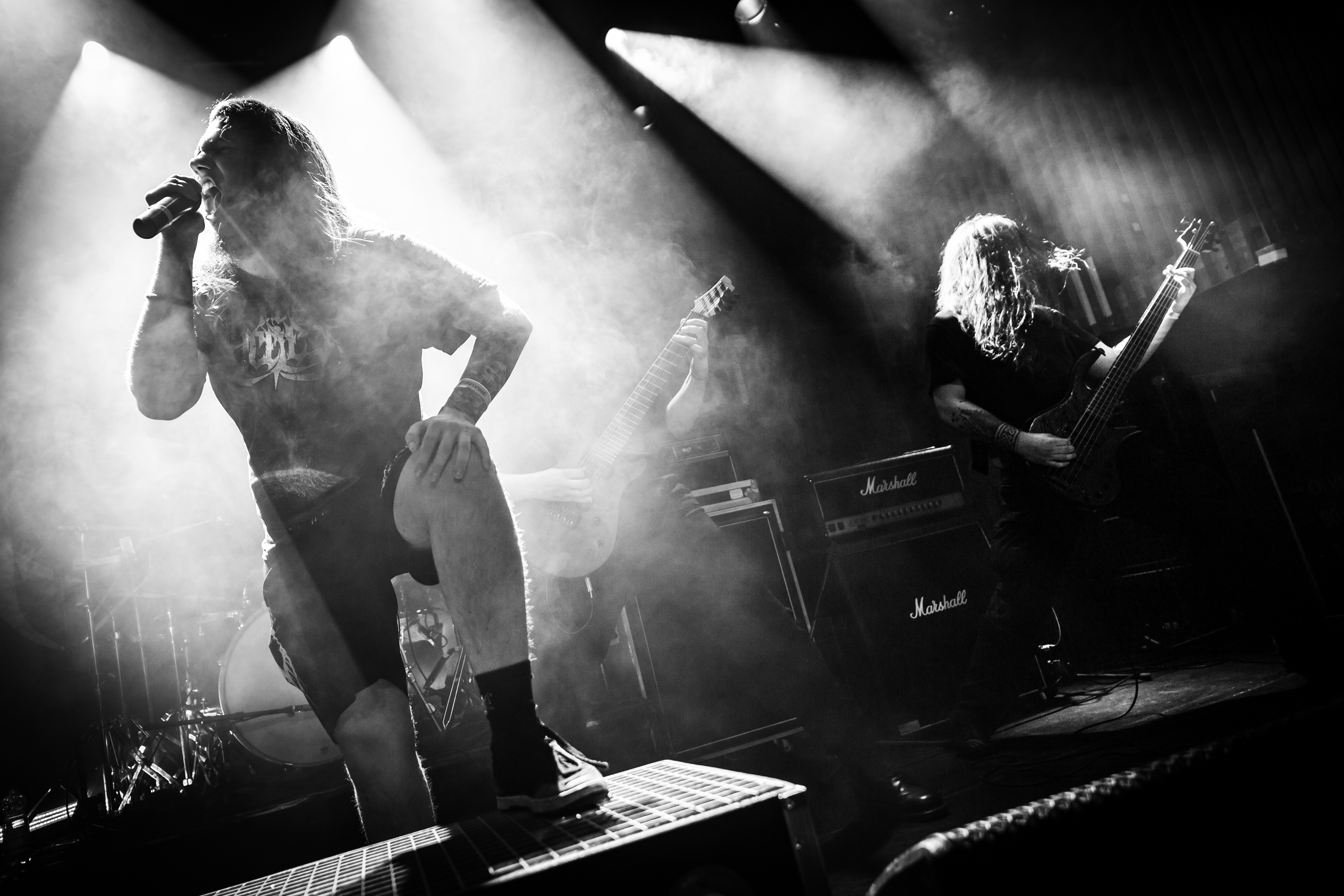 Inferum performing live at Complexity Fest, Haarlem (NL) 2019